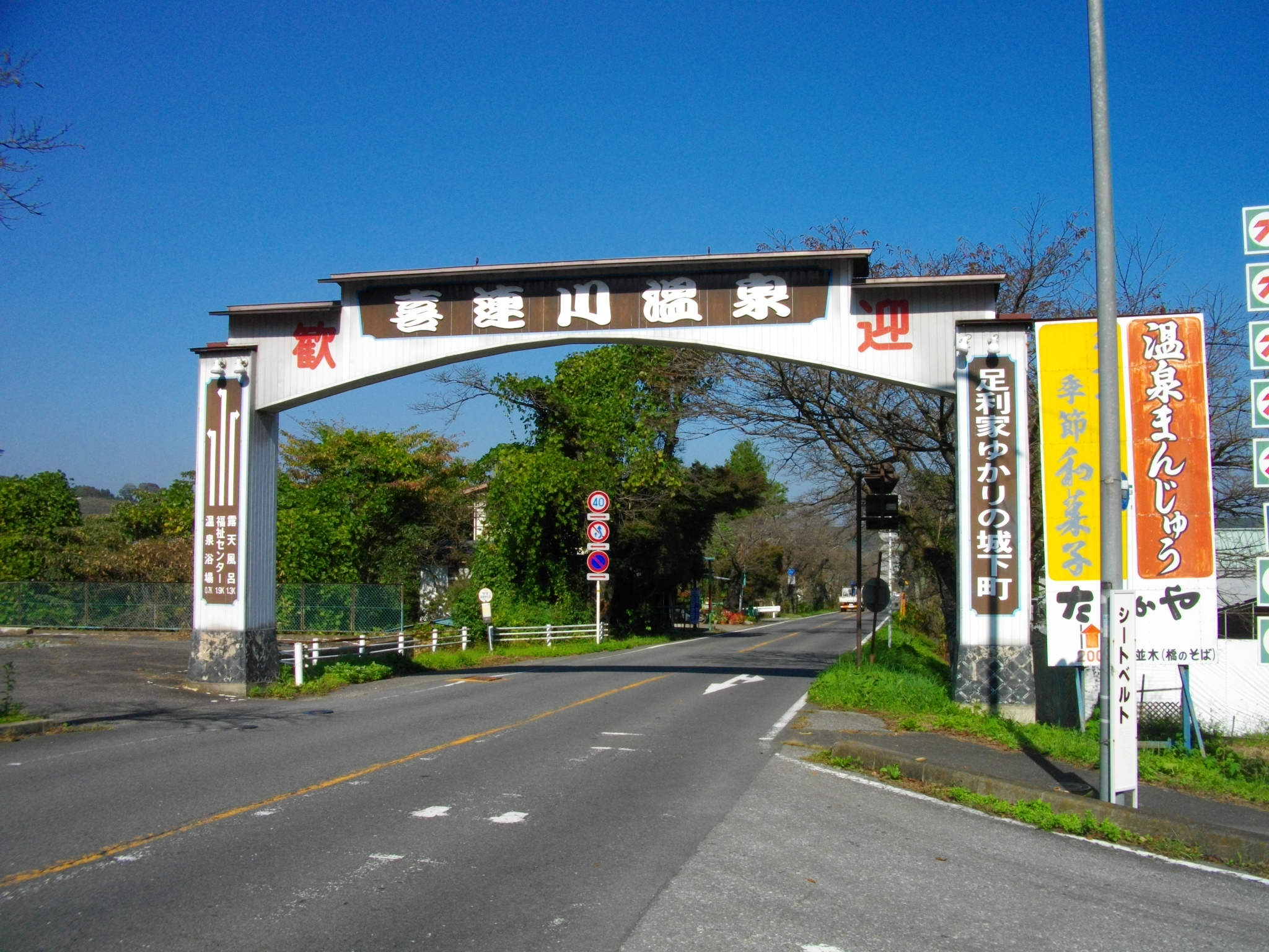 Entrance to Kitsuregawa Onsen